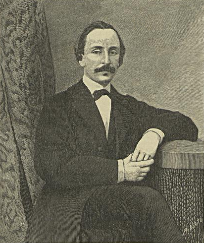 António da Costa de Sousa de Macedo (1824-1892), Portuguese writer and politician